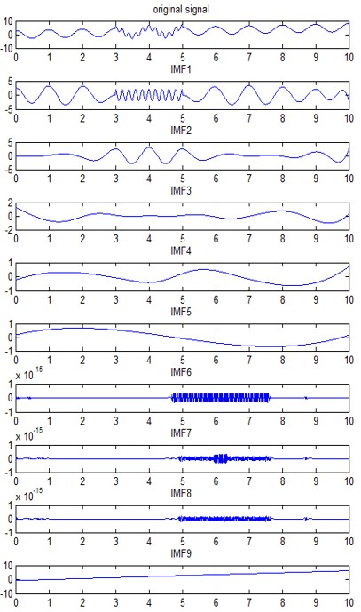 EMD simulation with mode mixing